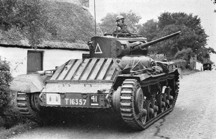 British Valentine Mk I tank, showing narrow early type track, North Ireland